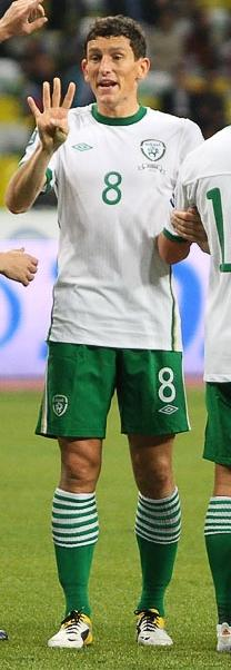 Keith Andrews with the Republic of Ireland national football team in 2011.